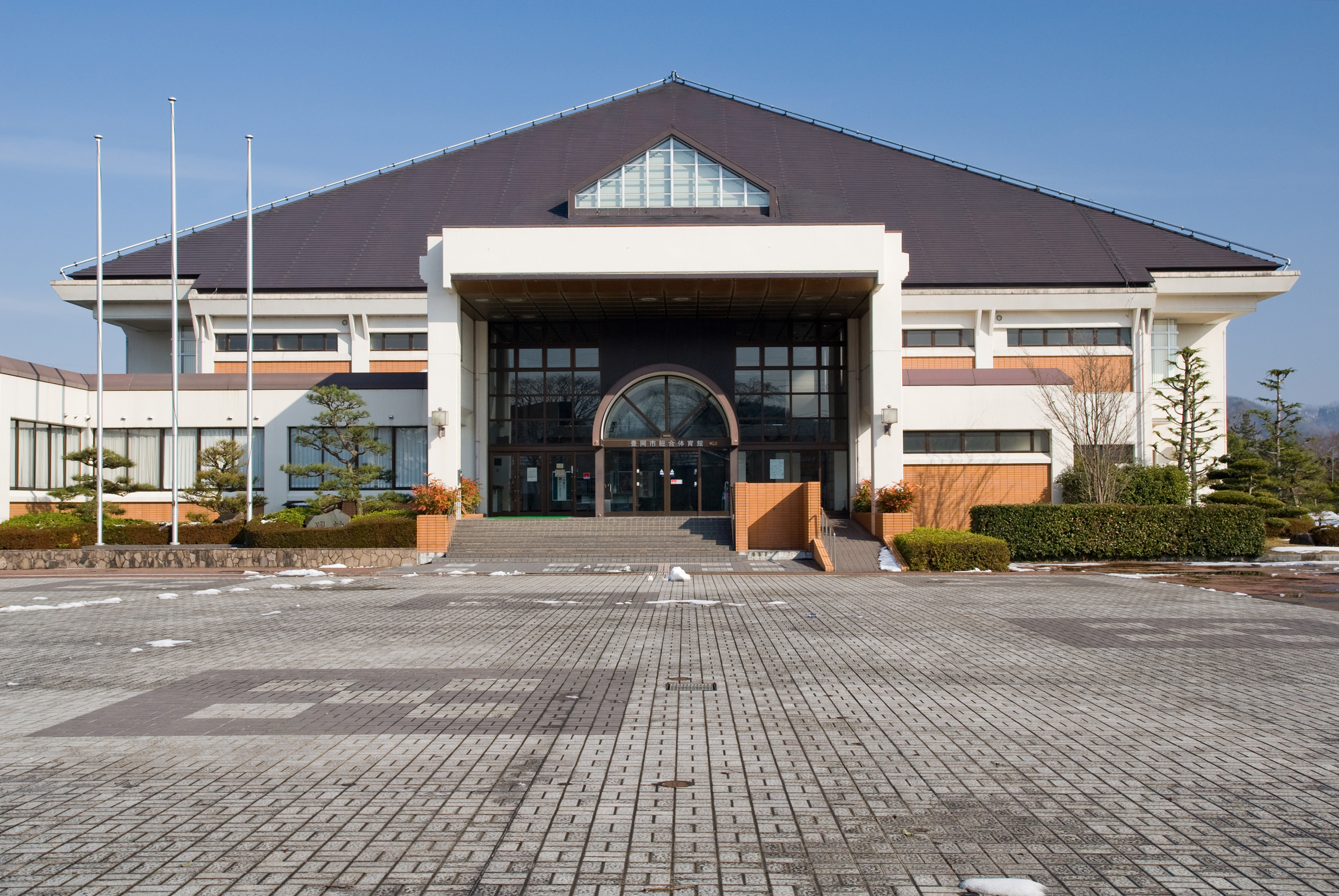 Toyooka Integrated GYM in Toyooka Hyogo.